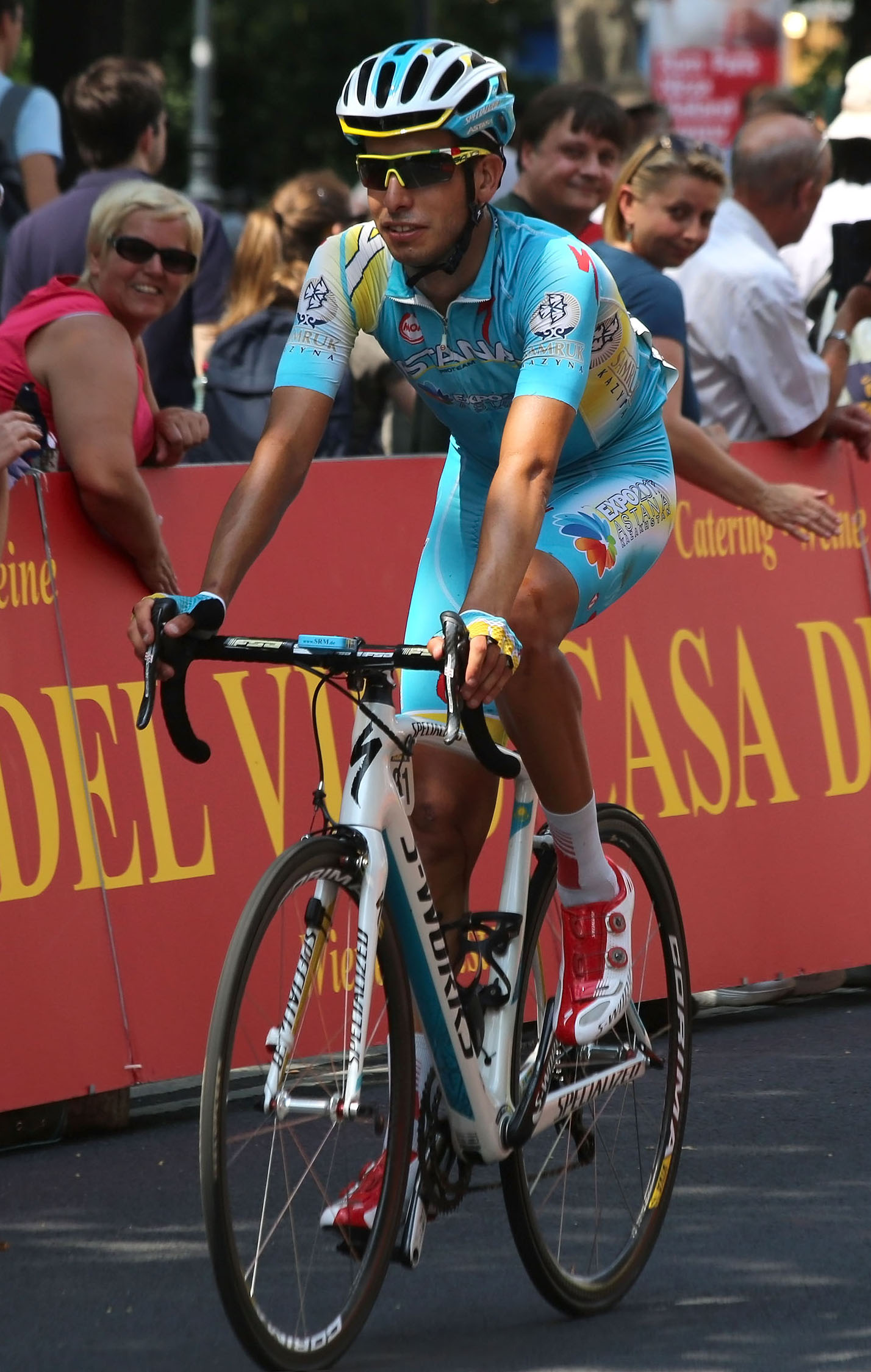 Fabio Aru after finishing the final stage of the Tour of Austria in Vienna, Austria.